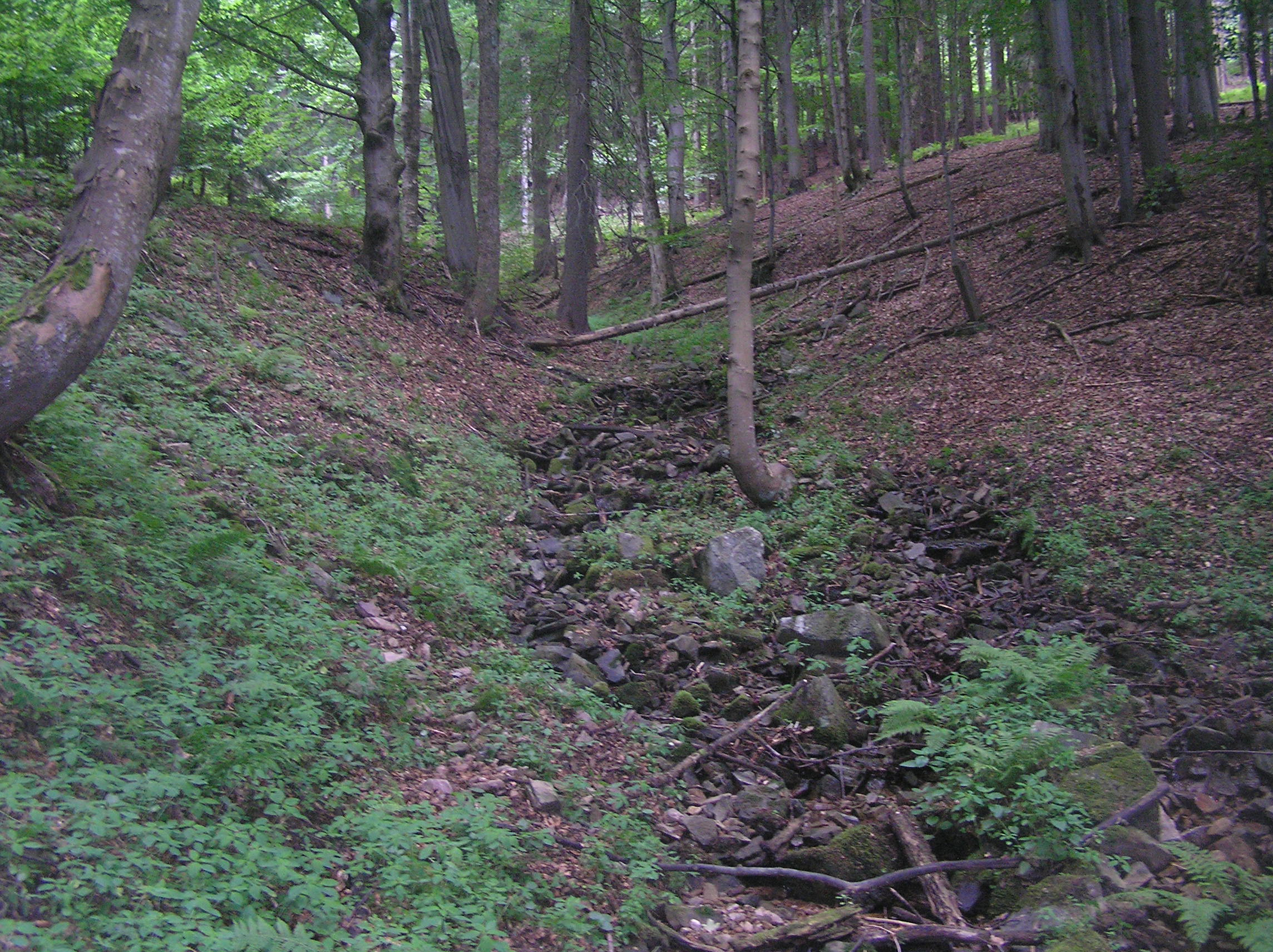 Zelený potok, Králický Sněžník Mountains, Czech Republic